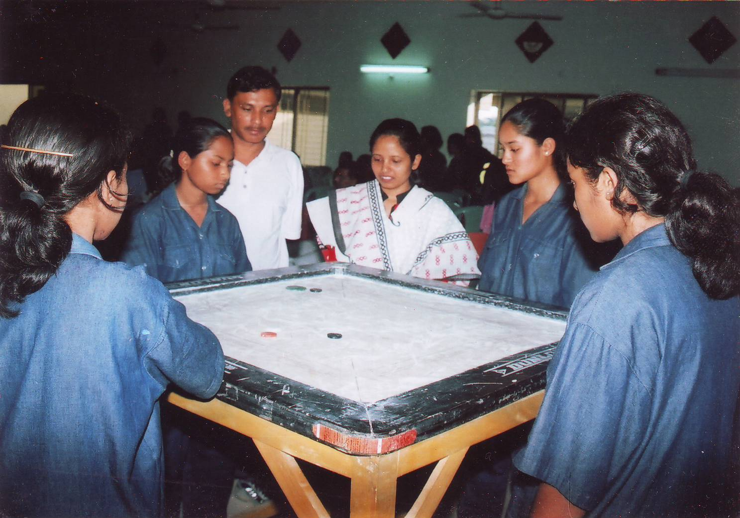 indoor games